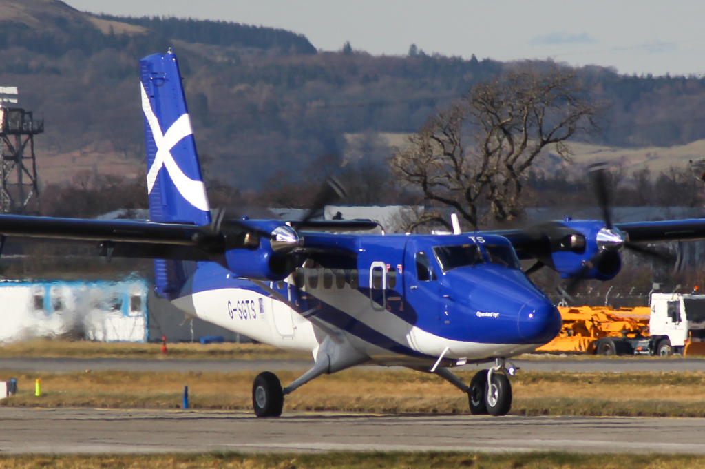 G-SGTS DHC-6-400 Twin Otter Loganair at Glasgow Airport